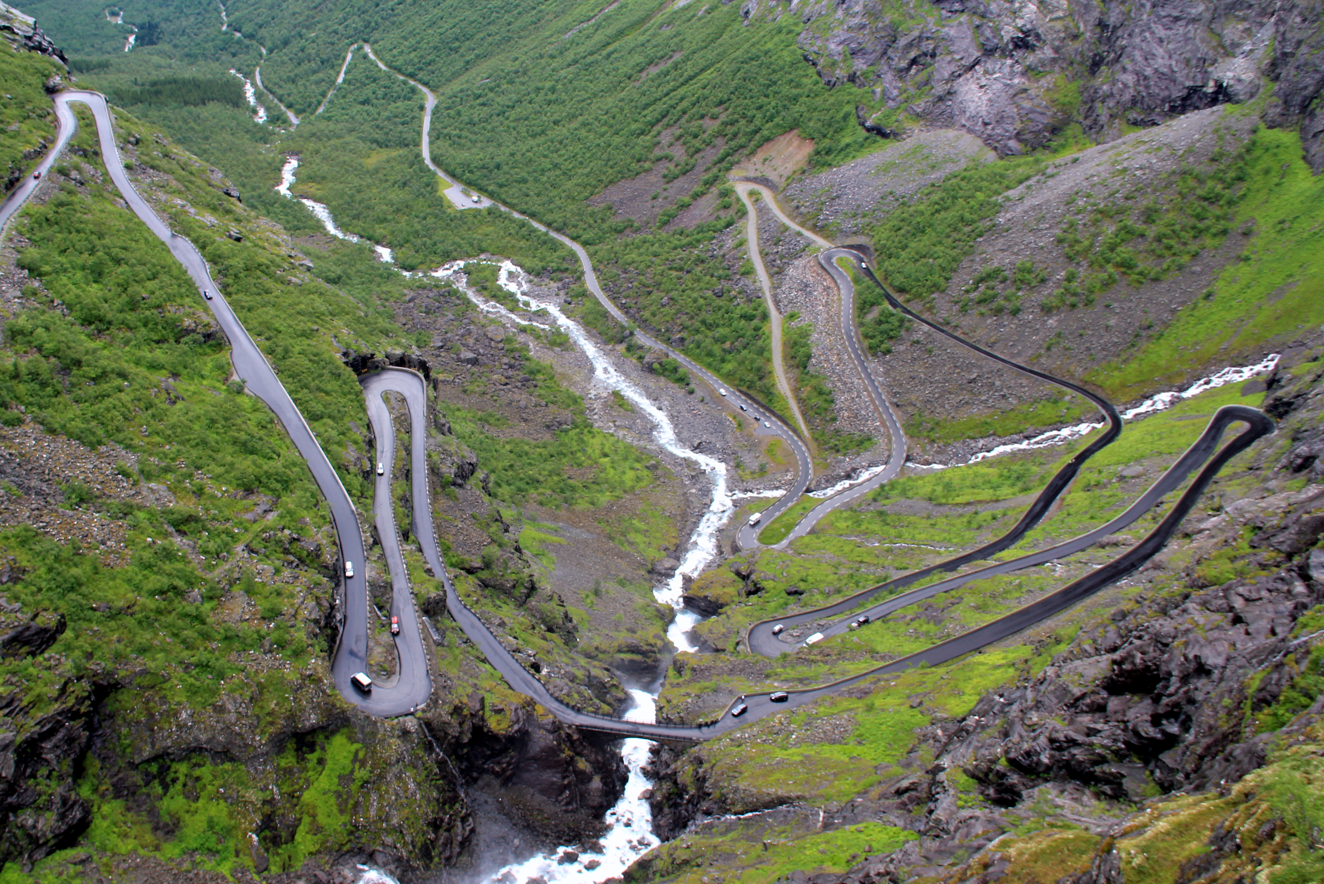 Trollstigen